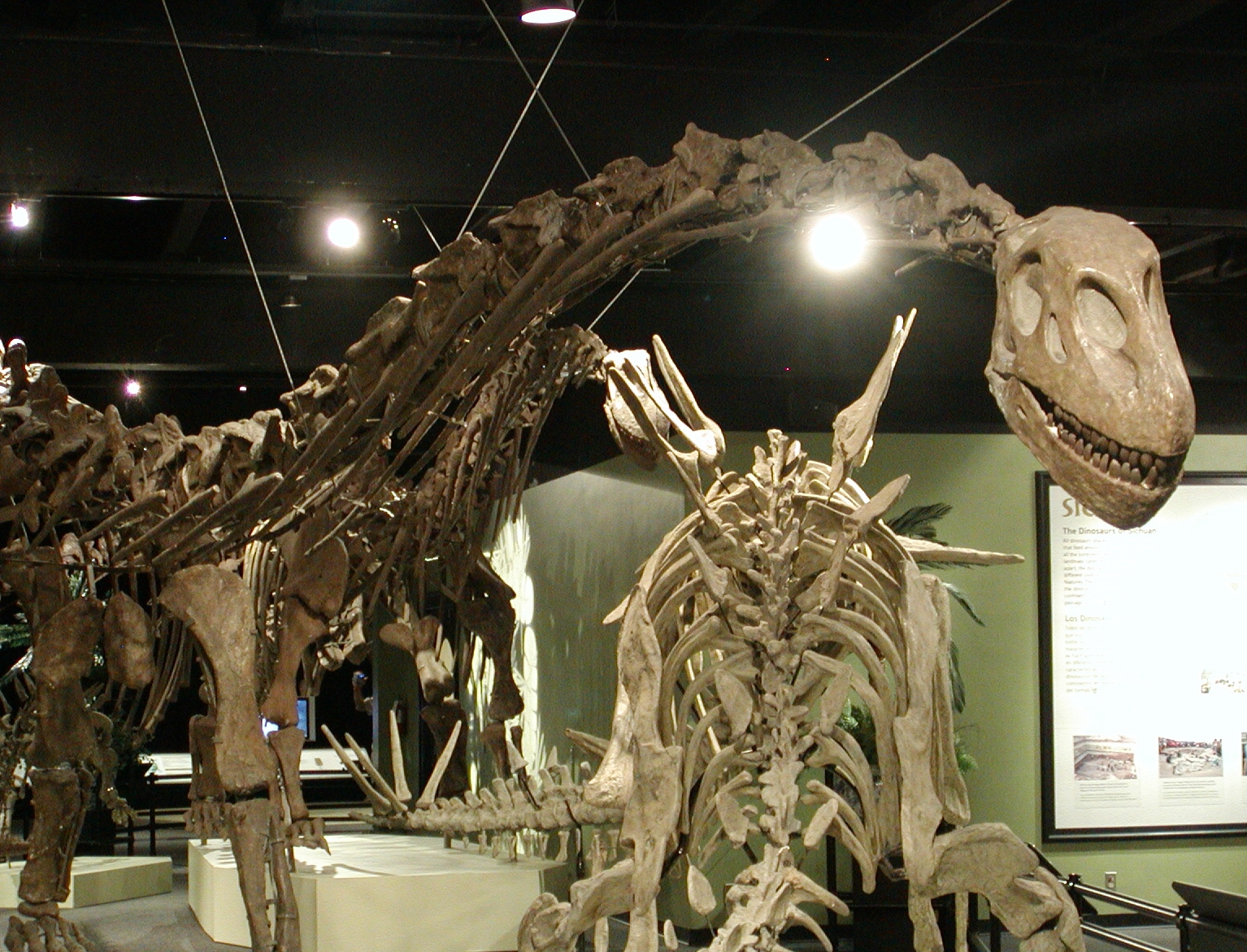 Photo of skeleton of Omeisaurus tianfuensis from the Beijing Museum on view at the Miami Museum of Science.